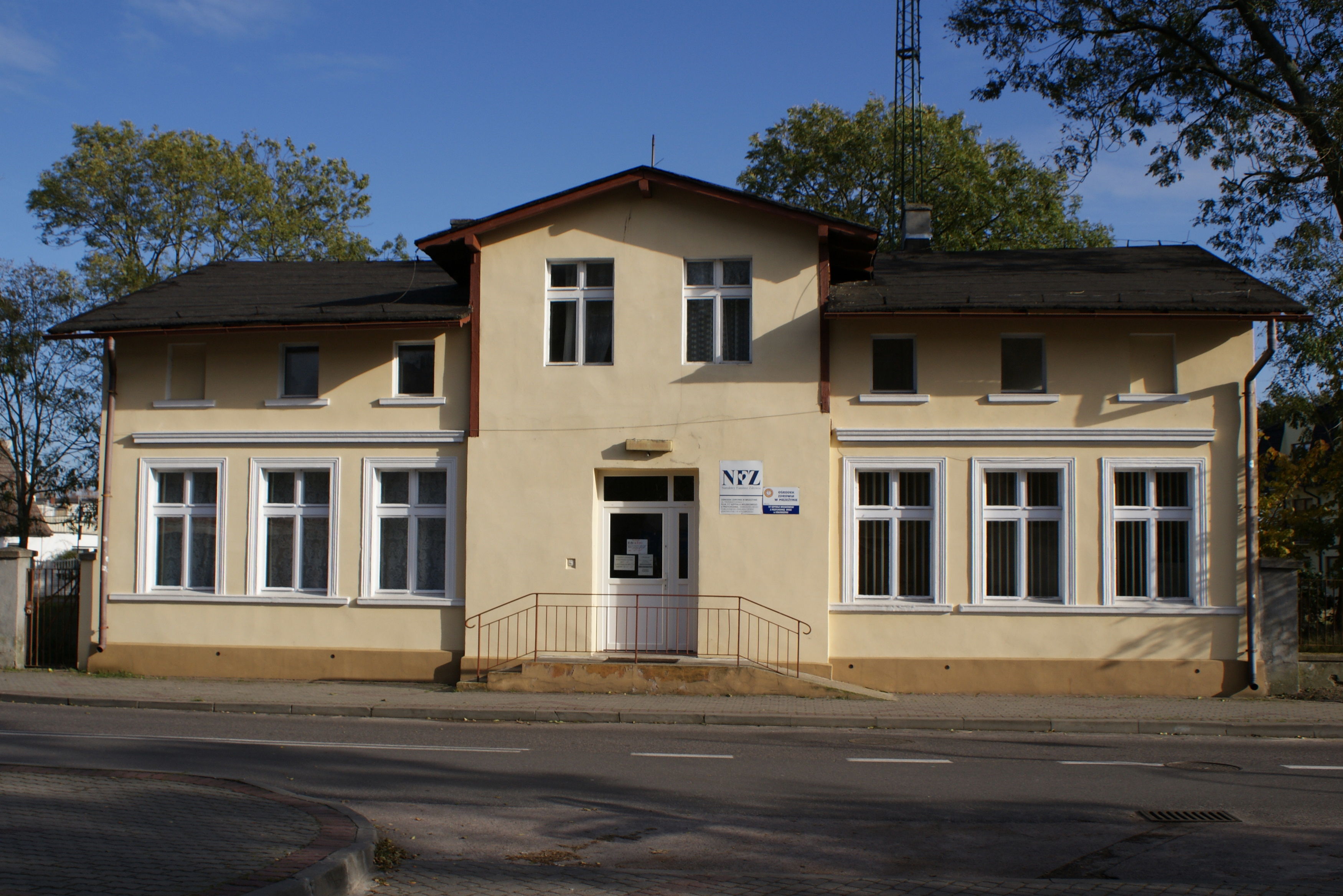 Health facility in Mrzeżyno, Poland